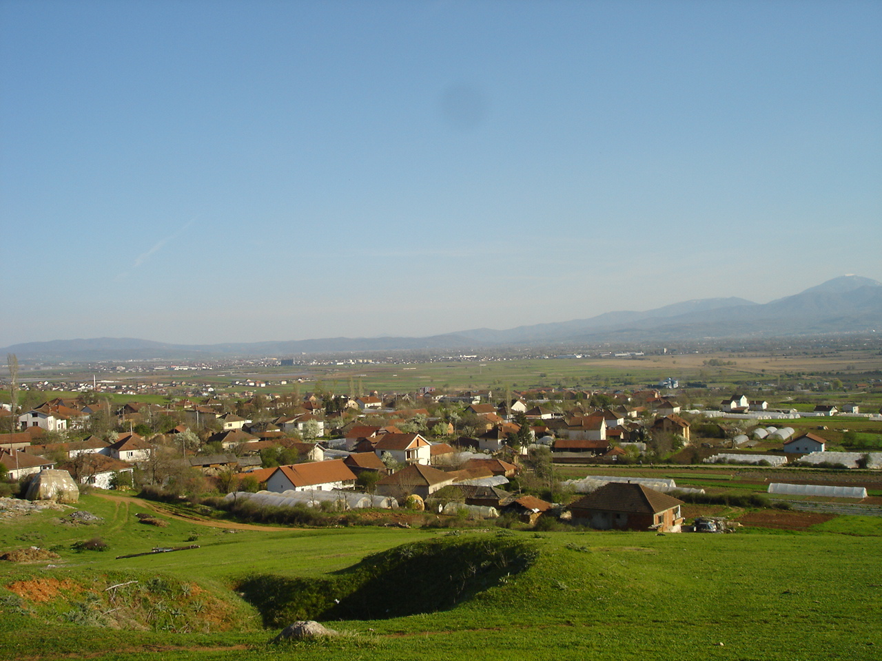 village of Brnjarci, near Skopje, Macedonia